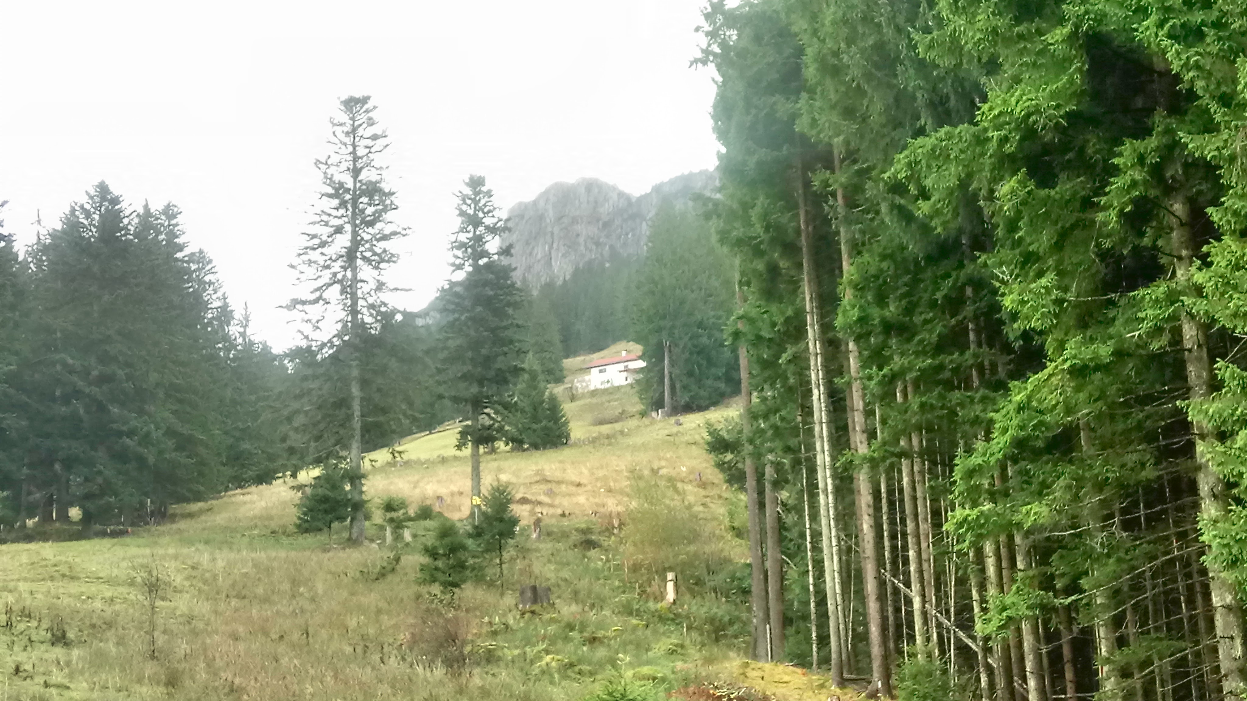 Bucher Alm, Bavaria